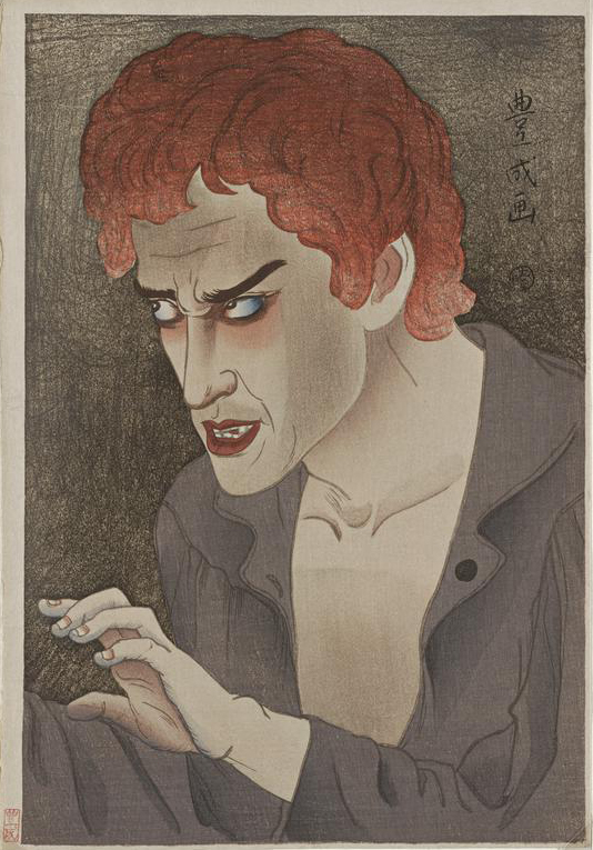 Actor Morita Kan'ya XIII as Jean Valjean